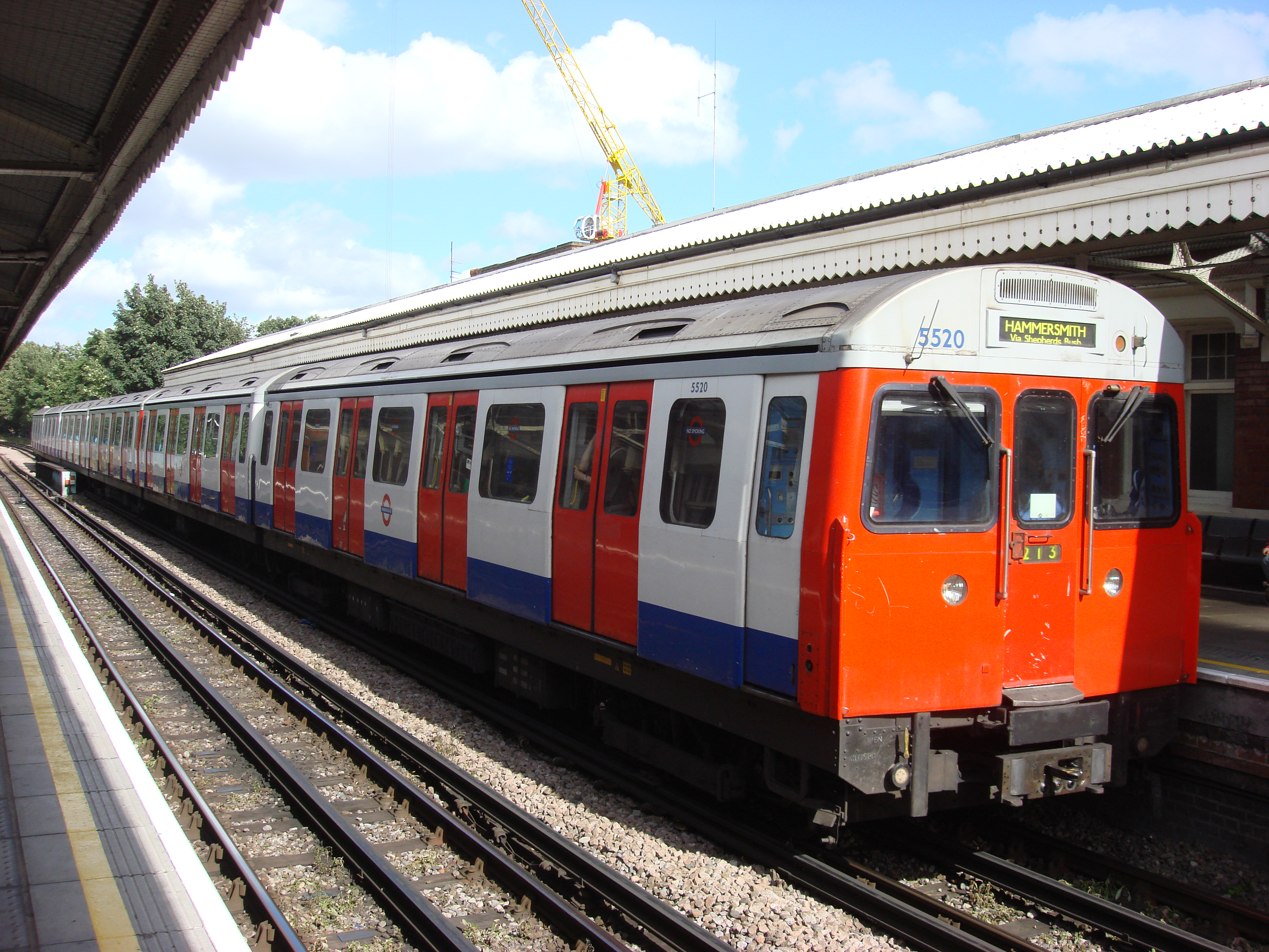 London Underground C77 Stock at Ladbroke Grove tube station